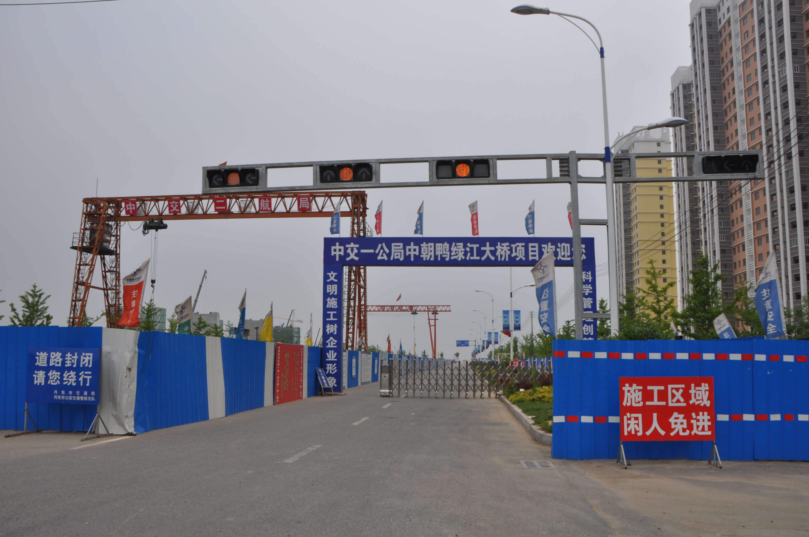 New Yalu River Bridge - Entrance on China Side